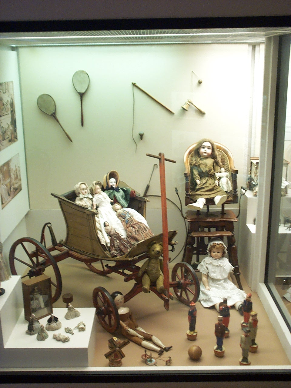 A display of 19th century dolls and other toys in Bedford Museum.